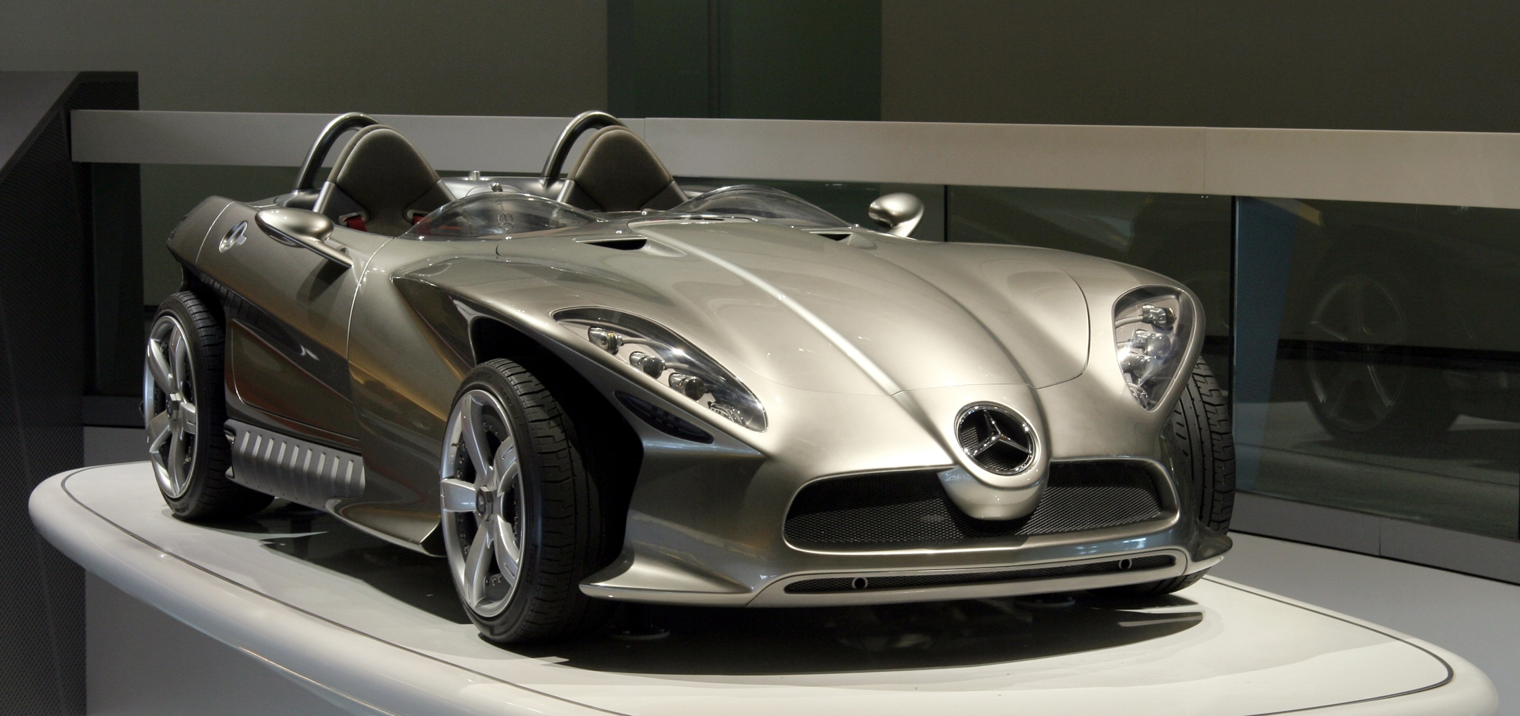 Mercedes-Benz F400 "Carving" Prototype.